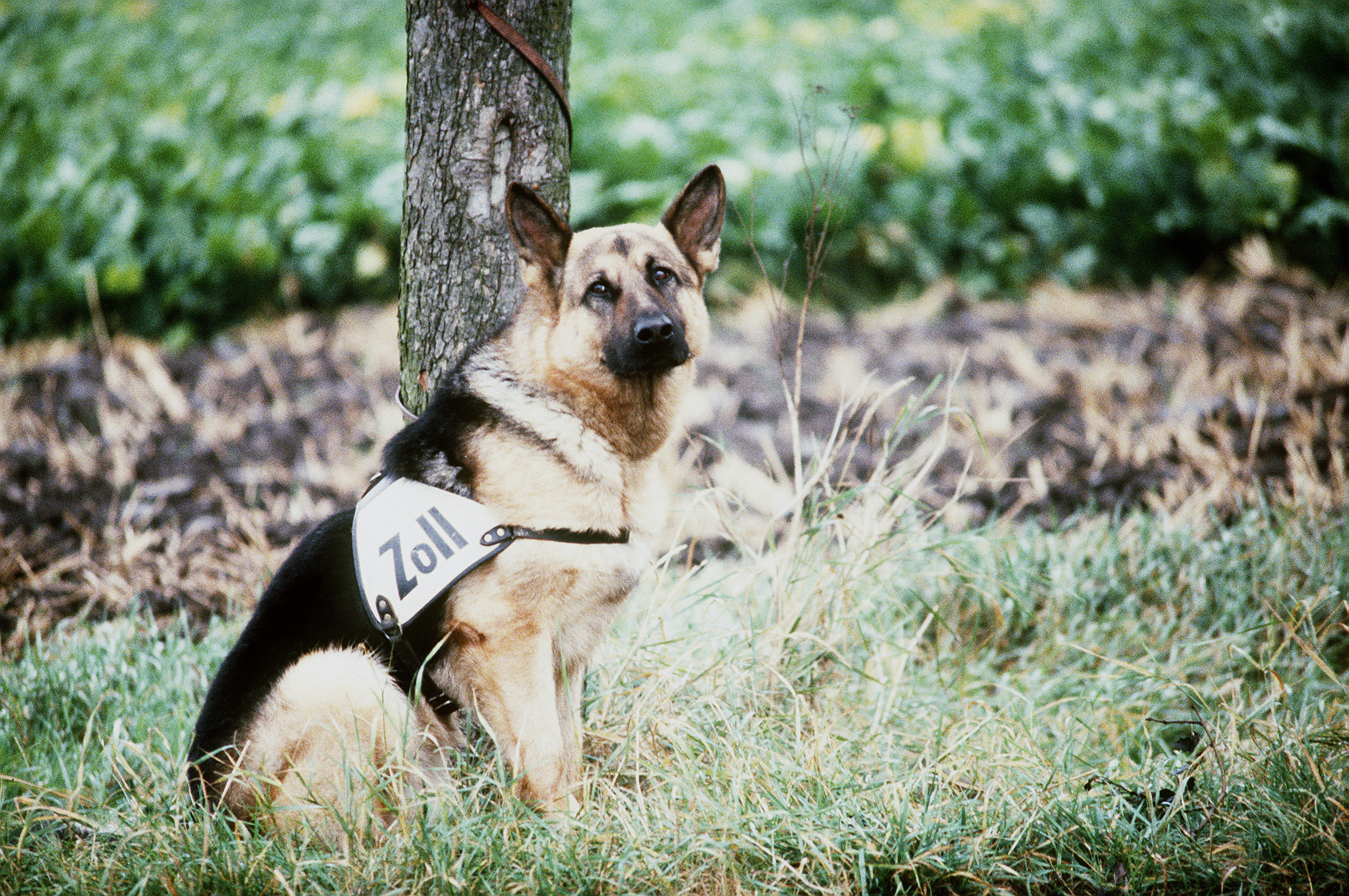 German shepherd border guard dog on duty at the border between East and West Germany.